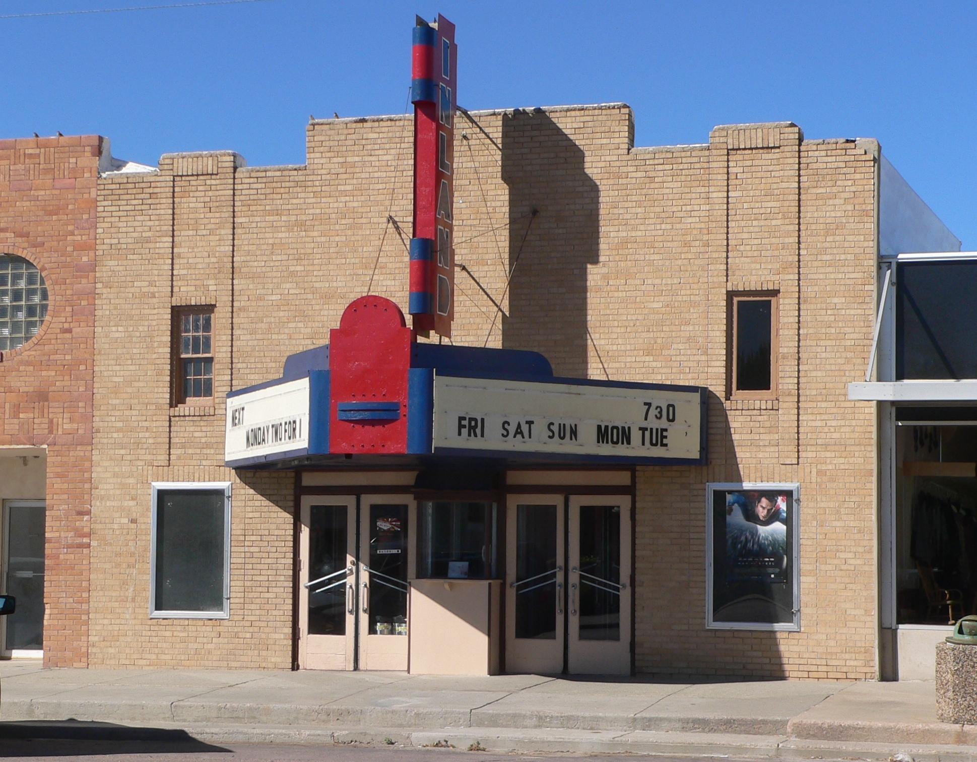 Inland Theater, located on north side of Main Street between Third and Fourth Avenues in Martin, South Dakota; seen from the south.